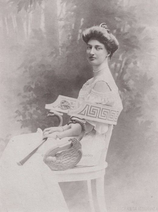 Photograph of Princess Louise of Orléans (1882-1958)